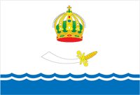 Astrakhan, flag